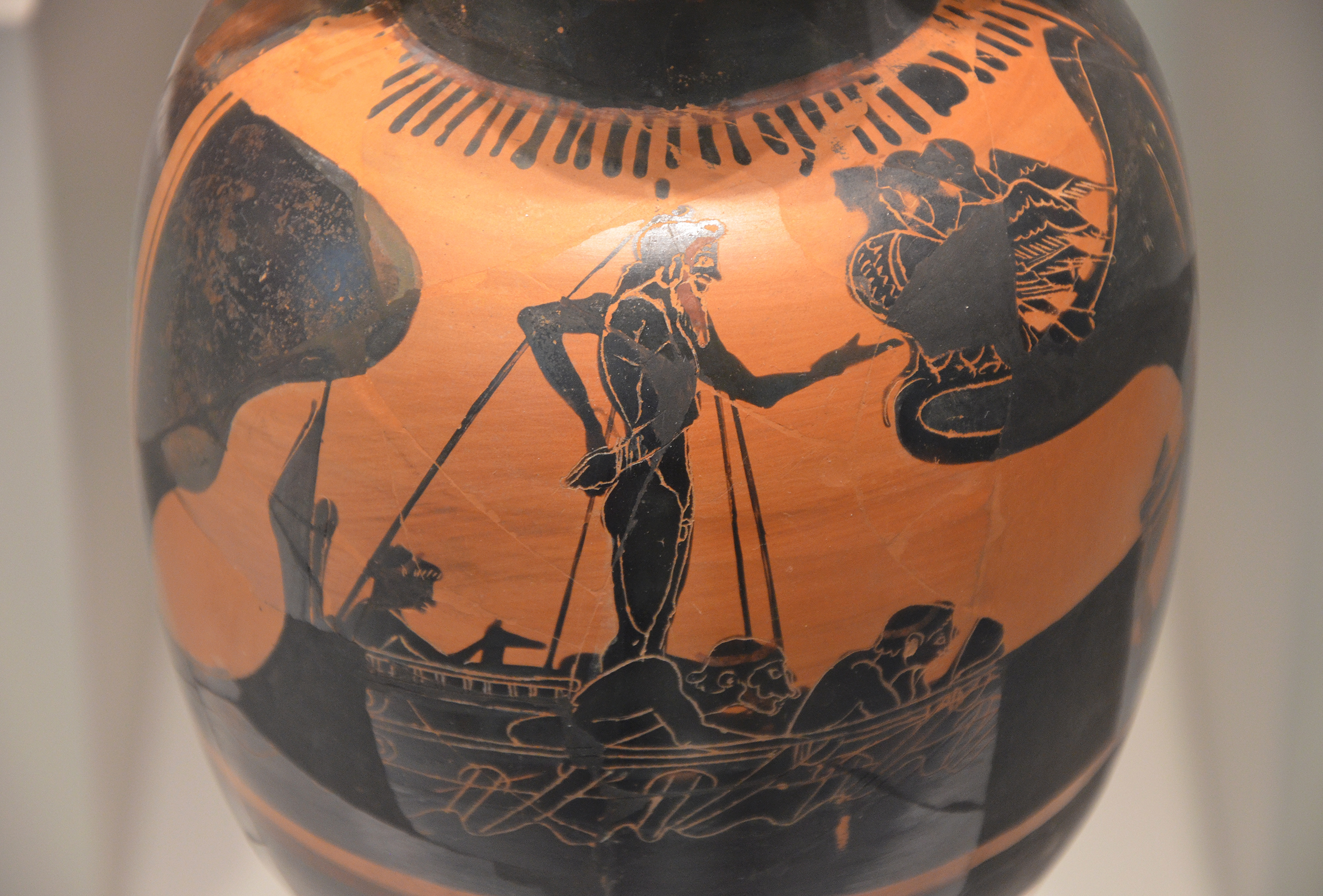 Attic black-figure oenochoe, Odysseus resists the song of the Sirens, 525-500 BC, Altes Museum Berlin